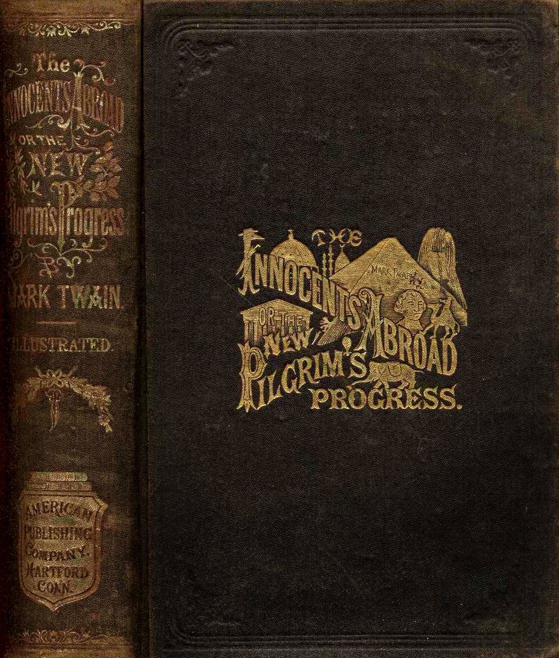 Book cover of Innocents Abroad by Mark Twain. 1884 edition